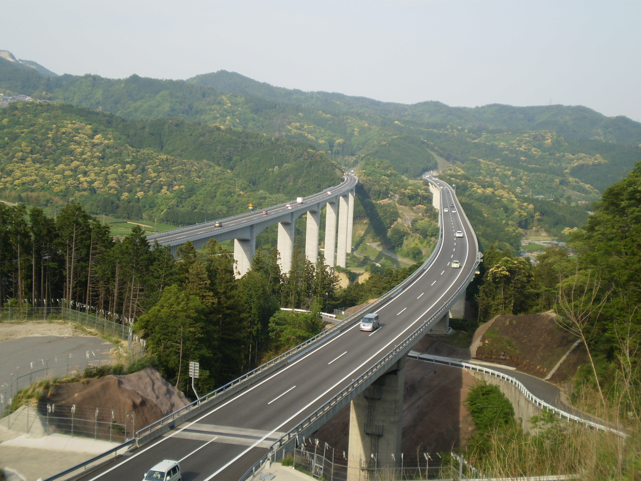 Ikeyama Viaduct on the Shin-Meishin Expressway in Asakayamacho, Kameyama City, Mie Prefecture, Japan